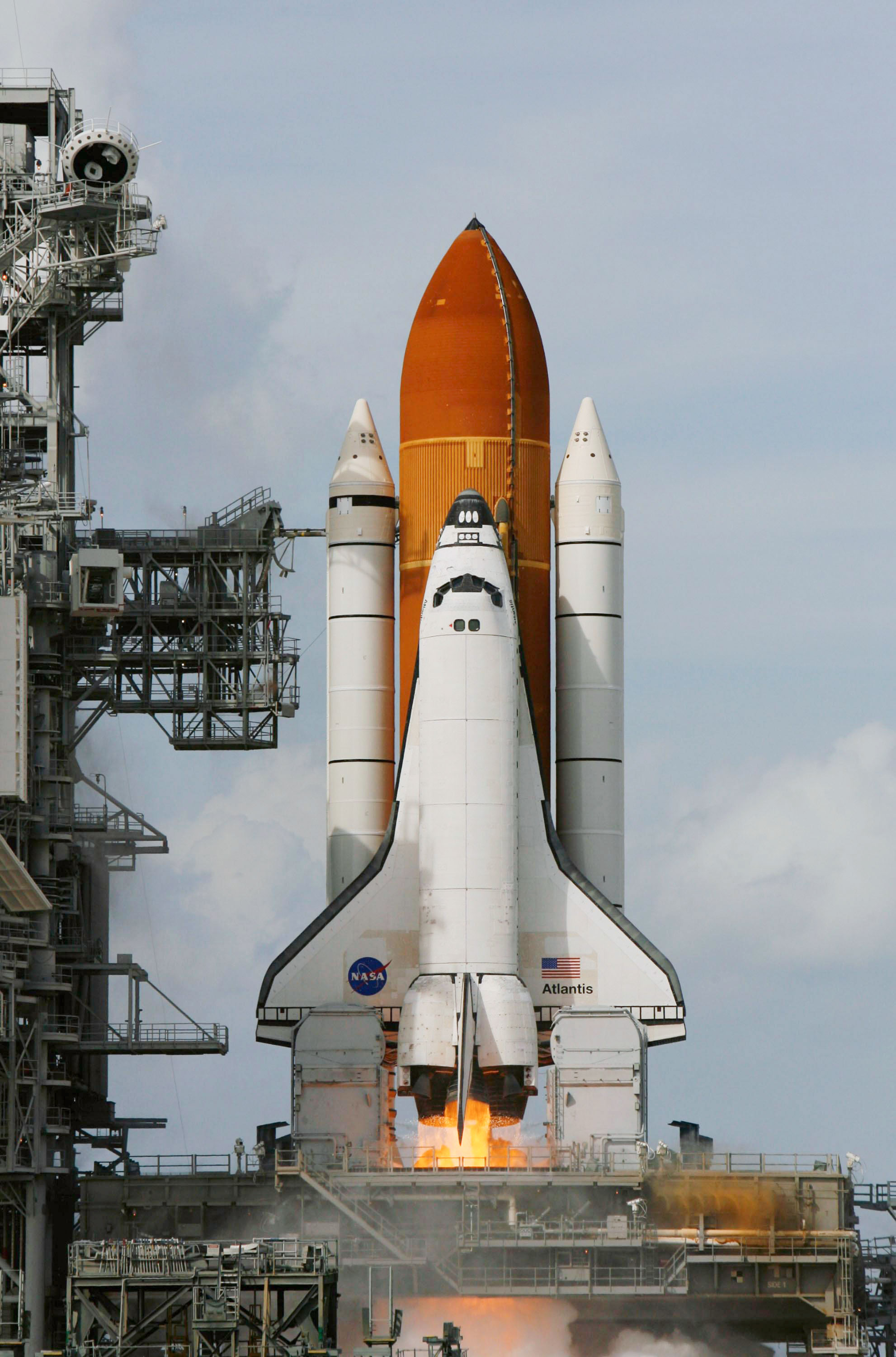 Flames from the main engines on Space Shuttle Atlantis, at ignition, pour through the mobile launcher platform into the flame trench below. Within seconds, Atlantis was on its climb into space and a rendezvous with the International Space Station on mission STS-122. Liftoff was on time at 2:45 p.m. (EST). This is the third launch attempt for Atlantis since December 2007 to carry the European Space Agency's Columbus laboratory to the station. During the mission, the crew's prime objective is to attach the laboratory to the Harmony module, adding to the station's size and capabilities. Onboard are astronauts Steve Frick, commander; Alan Poindexter, pilot; Leland Melvin, Rex Walheim, ESA's Hans Schlegel, Stanley Love and ESA's Leopold Eyharts, all mission specialists. Eyharts will join Expedition 16 in progress to serve as a flight engineer aboard the ISS.